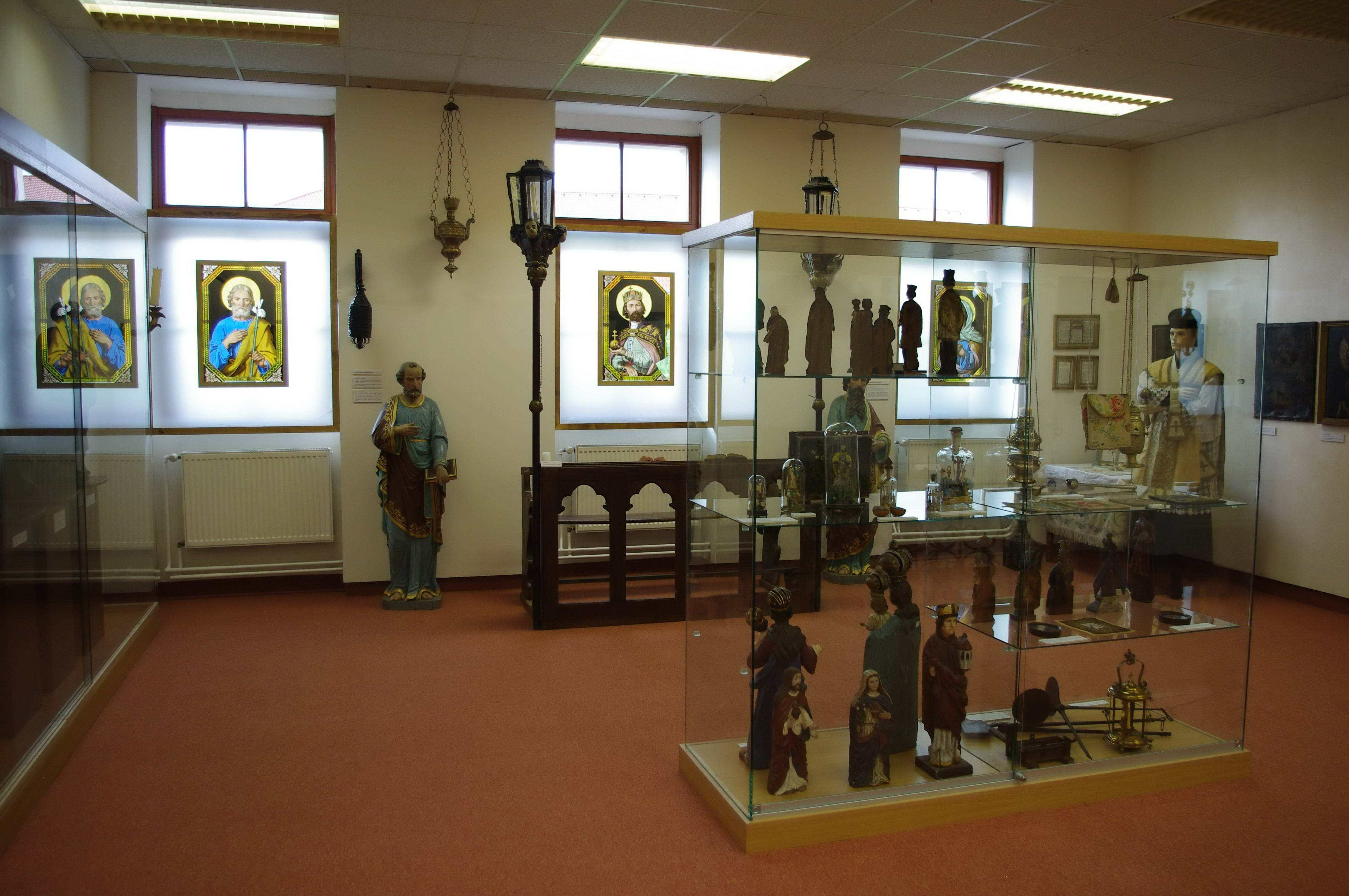 Expozice umění v Muzeu Bojkovska